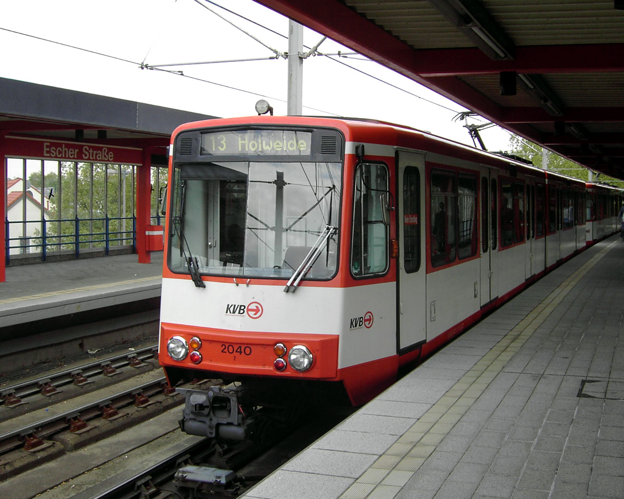 Type B LRV in Cologne, stopping at an elevated station on the Gürtel route